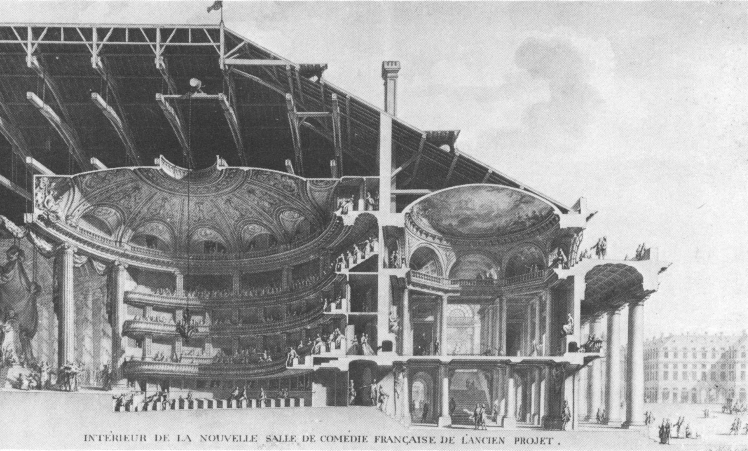 Comédie-Française (Odéon), long section in perspective, drawing by Charles de Wailly based on the second project of 1770, probably exhibited at the 1781 Salon